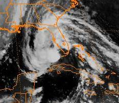 This image shows 65 mph Tropical Storm Marco on October 10, 1990 in the eastern Gulf of Mexico.